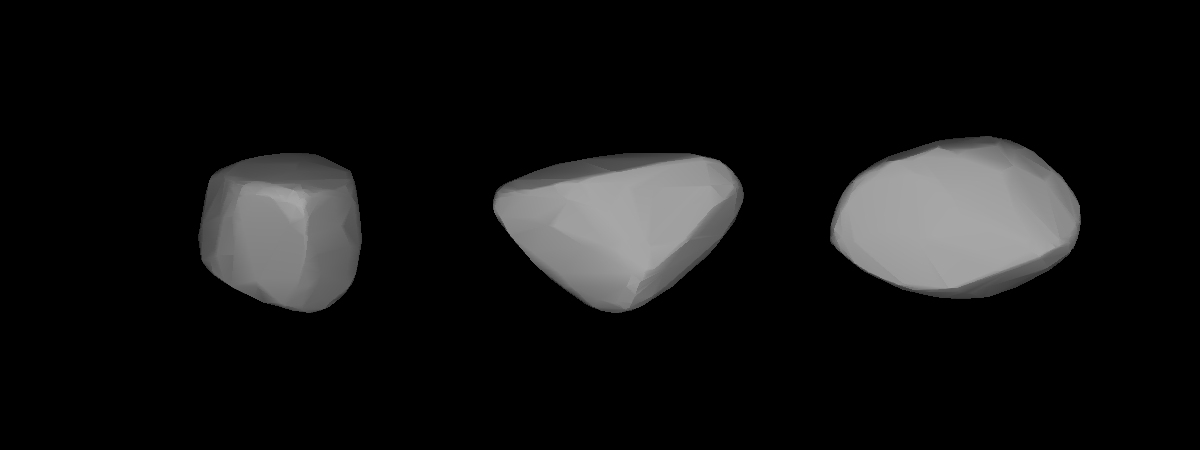 A three-dimensional model of 2112 Ulyanov that was computed using light curve inversion techniques.